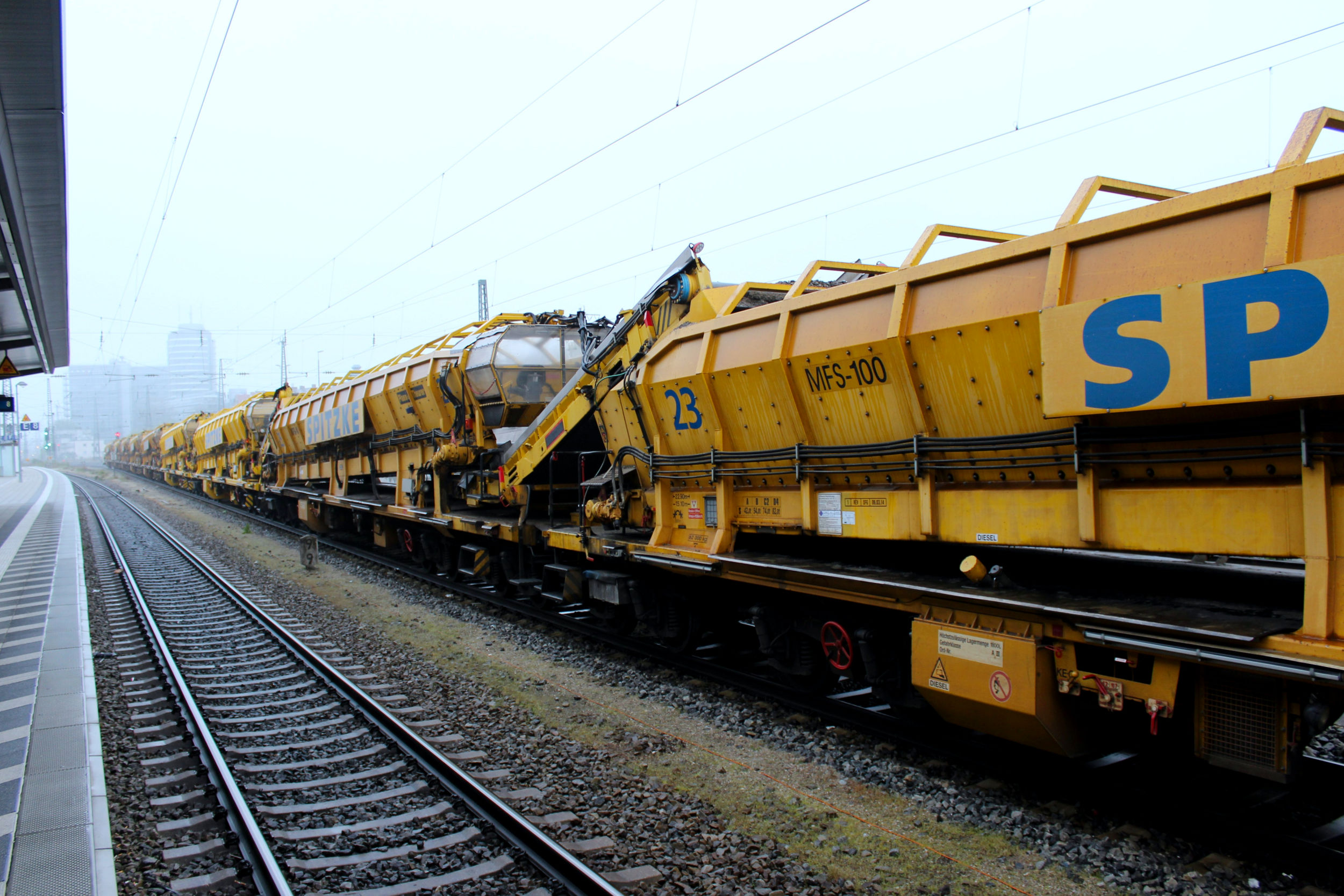 Plasser & Theurer MFS-100 material conveyor and hopper unit for continuous loading and unloading, operated by Spitzke Logistik GmbH. Photographed at Munich East train station